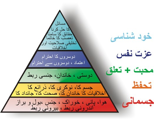 This diagram shows the need hierarchy of Maslow